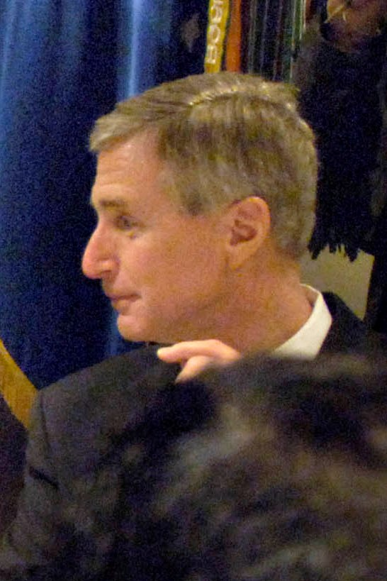 Joseph A. Benkert, Principal Deputy Assistant Secretary of Defense for Global Security Affairs